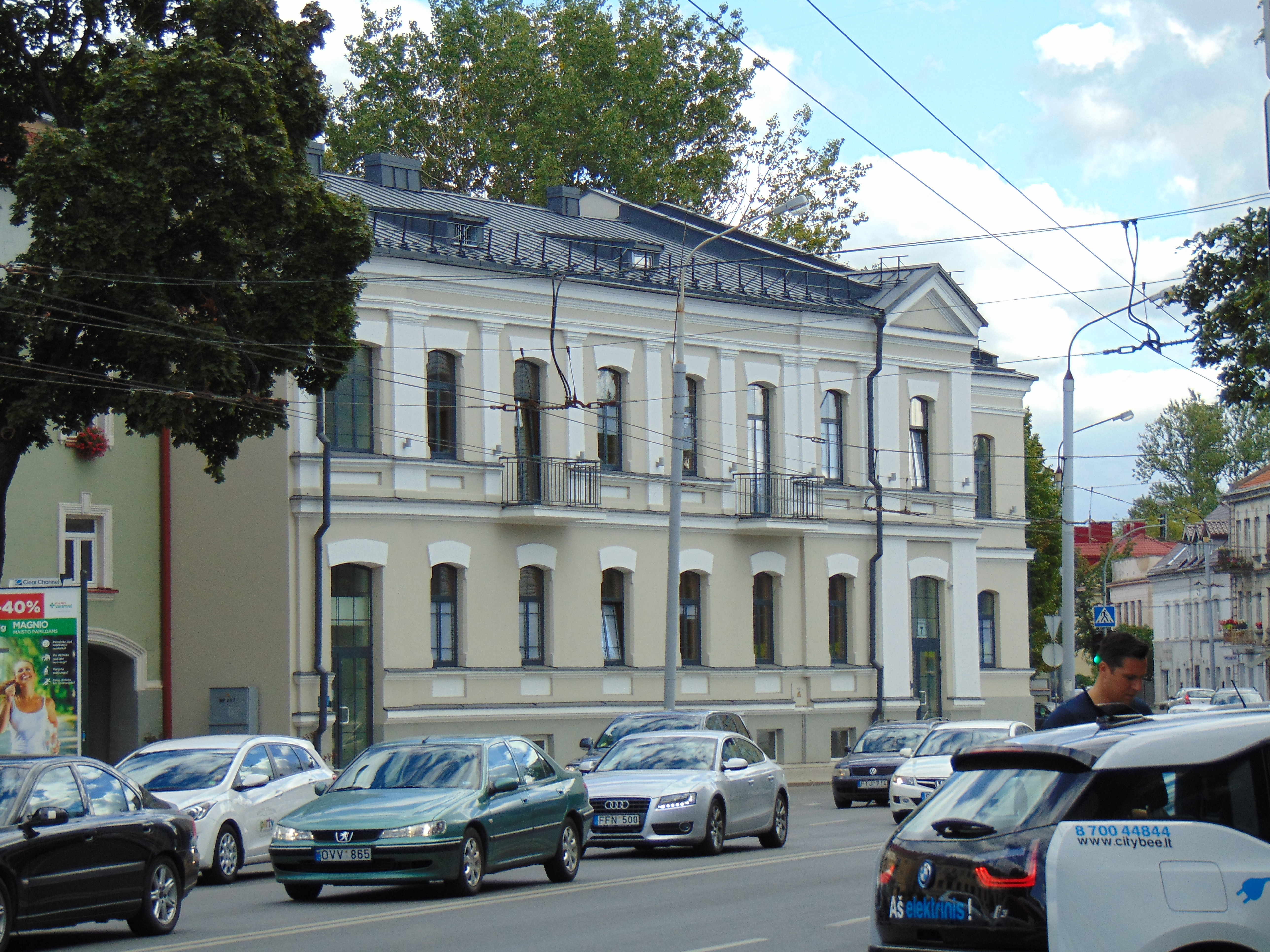 Lvovo 7